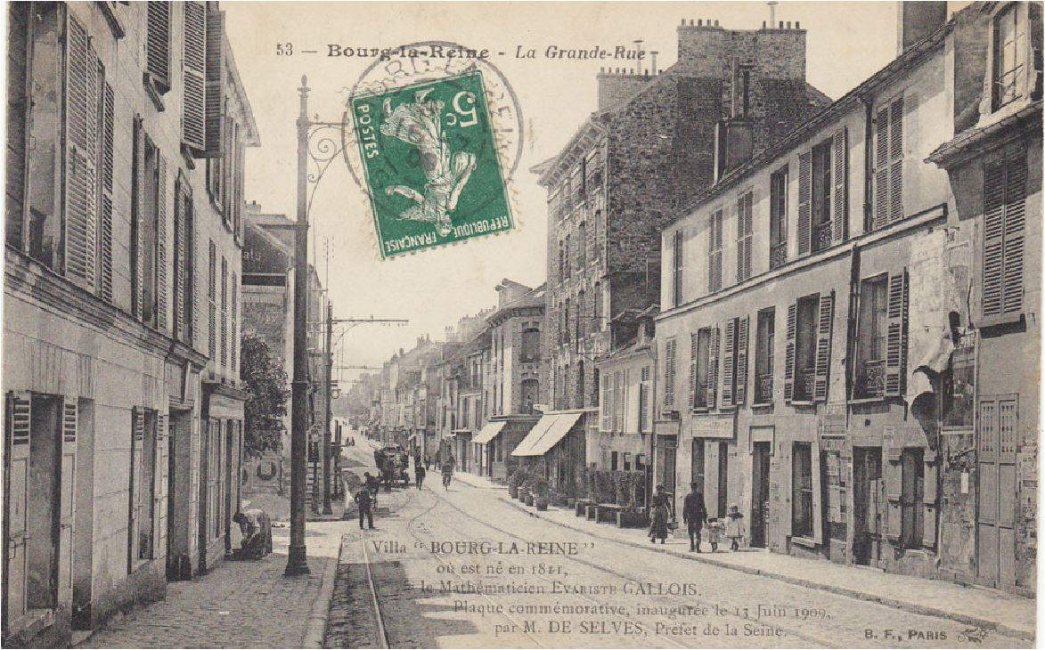 A street